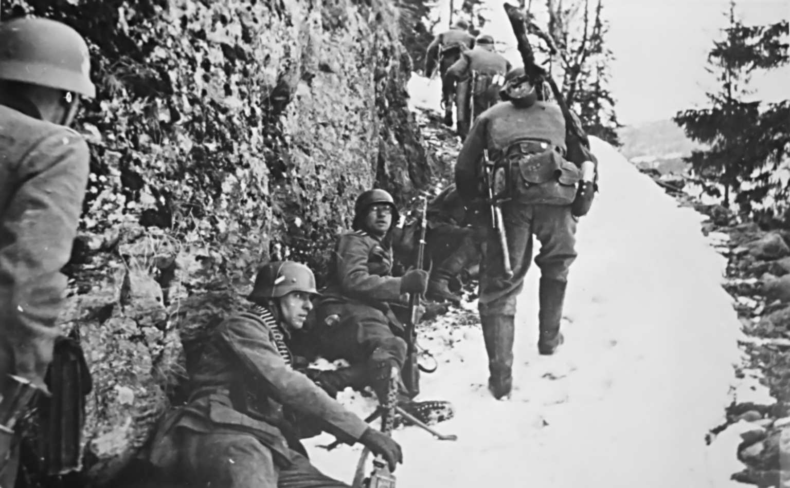 German forces under march, most likely towards Pålsbrøtin, south-west of Bagn in Sør-Aurdal, Norway. This is just south of pass in the valley at Bagn. See also Kampene langs Randsfjorden, i Ådalen og Valdres. This group is part of Stemmers company. See also later images Image:German forces under march towards Pålsbrøtin.jpg and Image:German forces under march towards Pålsbrøtin, single soldier.jpg.